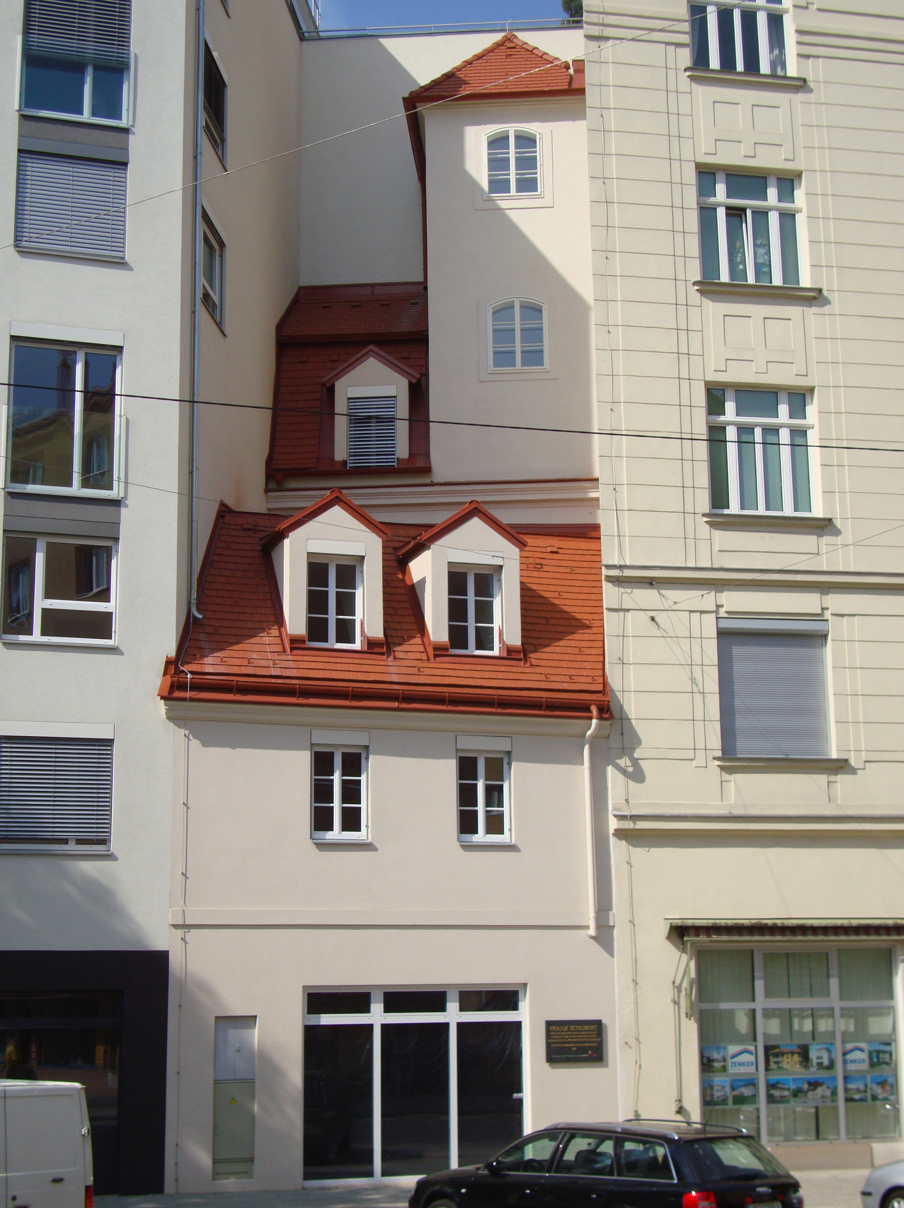 House Erdbergstraße 17 in Vienna, where Franz Schubert wrote the Prometheus Cantata